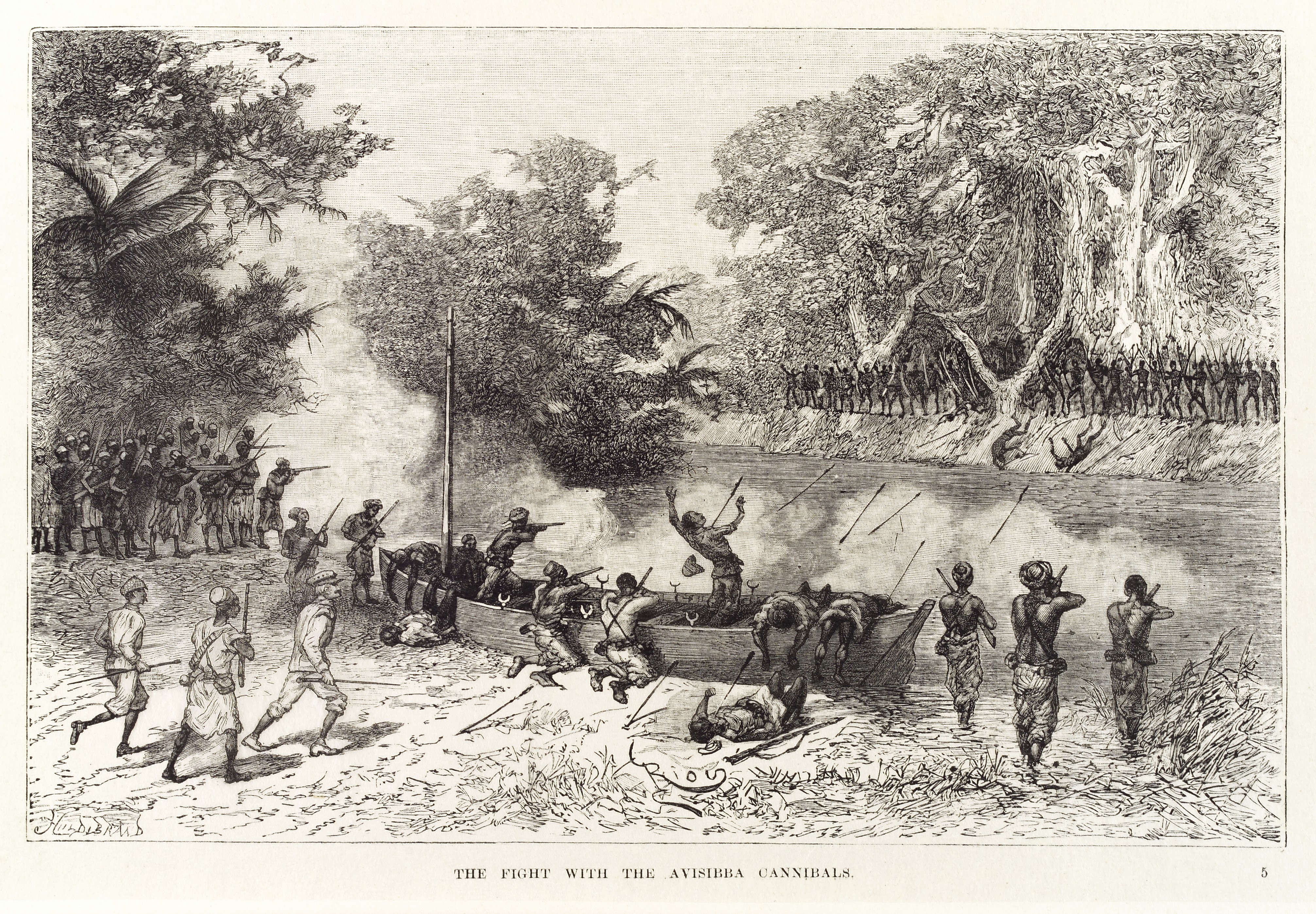 "The fight with the Avisibba Cannibals" The Emin Pasha Relief Expedition under attack from an African tribe. General Collections Keywords: Weapons; Emil Pasha; Expedition; Travel; Henry Morton Stanley; Fighting; Travels; Ambush; Exploration; Emin Pasha Relief Expedition; Henri-Théophile Hildibrand; Permethrin; Expeditions